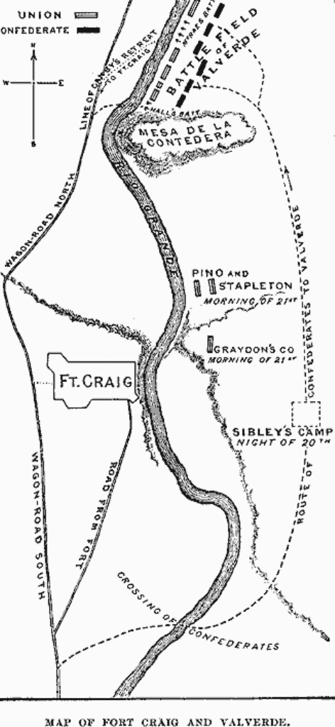 A map of the Battle of Valverde, Feb 20-21, 1862, and the surrounding area, including Fort Craig